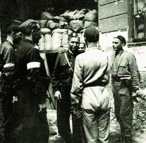 Gen. Leopold Okulicki among soldiers of the Home Army during insurgent fights in Warsaw, 1944.